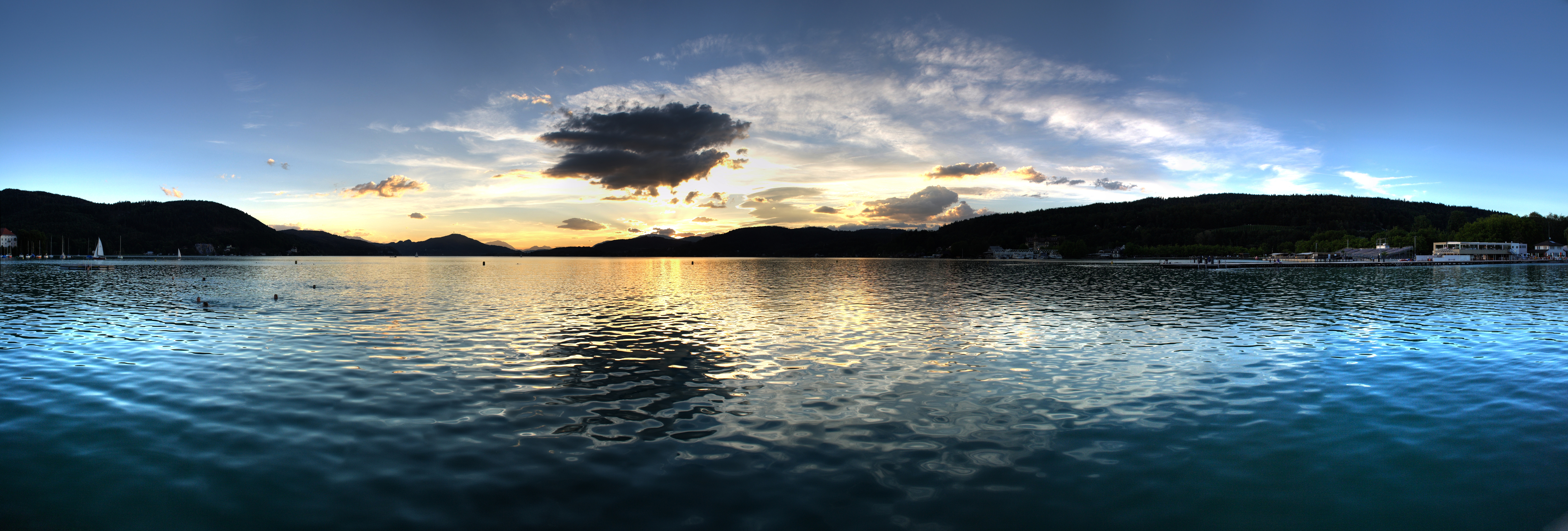 Wörther lake near Klagenfurt (Austria)